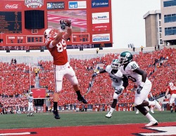 Garrett Graham scores a touchdown against Michigan State at Camp Randall Stadium in Madison, Wisconsin